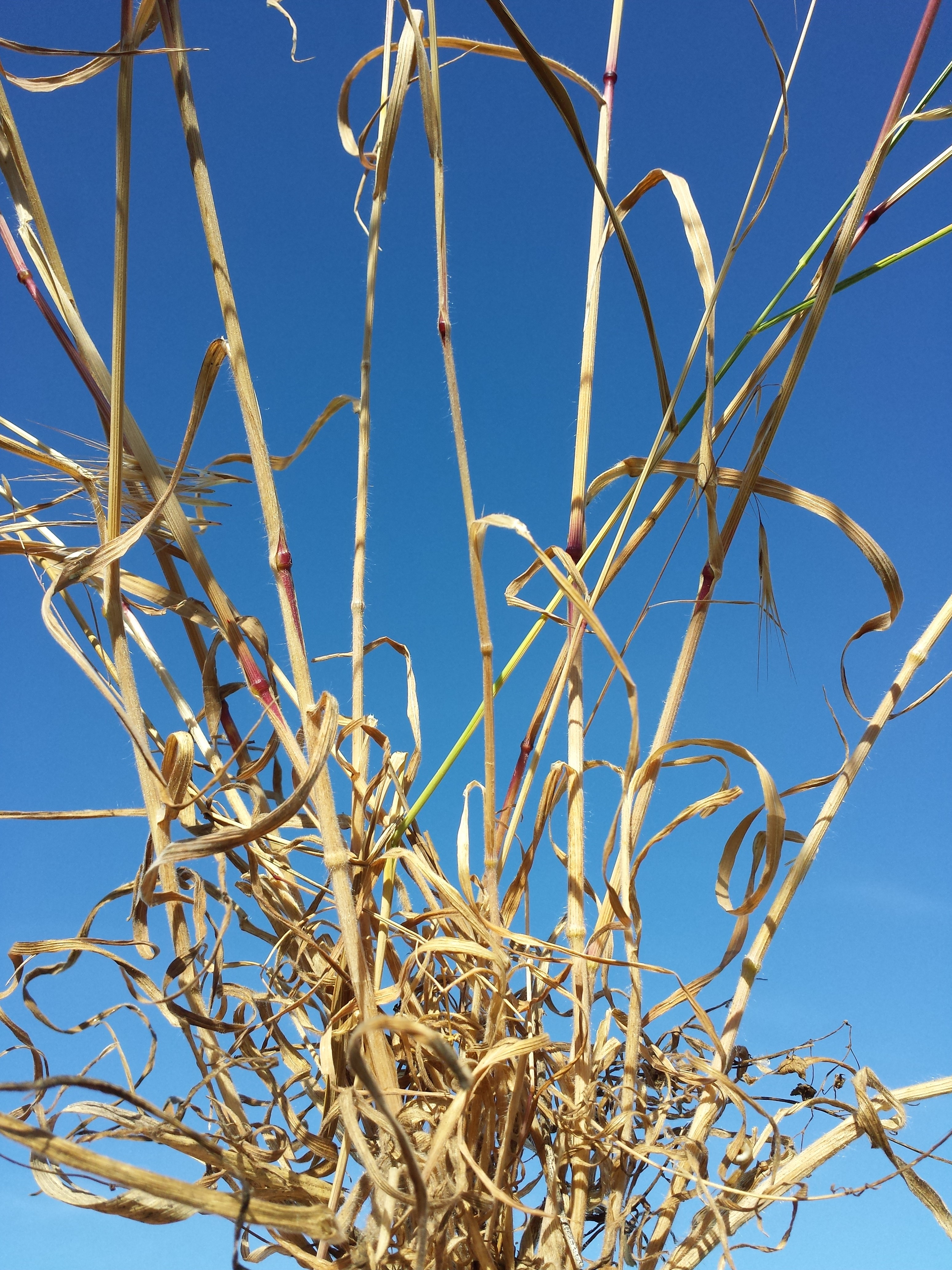 Base of stems Taxonym: Bromus tectorum ss Fischer et al. EfÖLS 2008 ISBN 978-3-85474-187-9 Location: Jedlersdorf rail station, Vienna-Floridsdorf - ca. 160 m a.s.l. Habitat: ruderal area